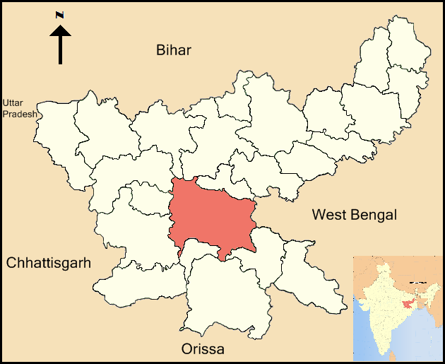 A locator map of Ranchi district, Jharkhand state.